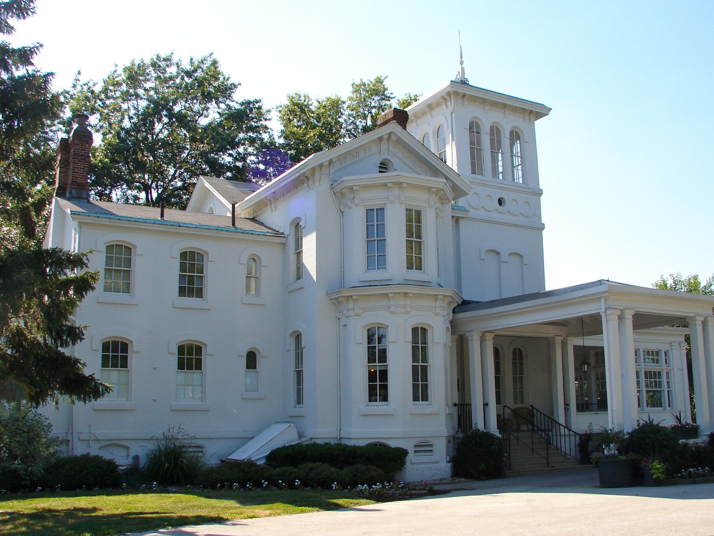 Commandant's Quarters at Philadelphia Naval Shipyard on NRHP since June 3, 1976 on Langley Avenue in the Navy Yard